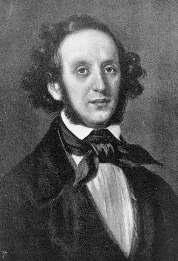 German conductor and composer Felix Mendelssohn Bartholdy (1809-1847). Reproduction of a painting by Eduard Magnus (1799-1872).